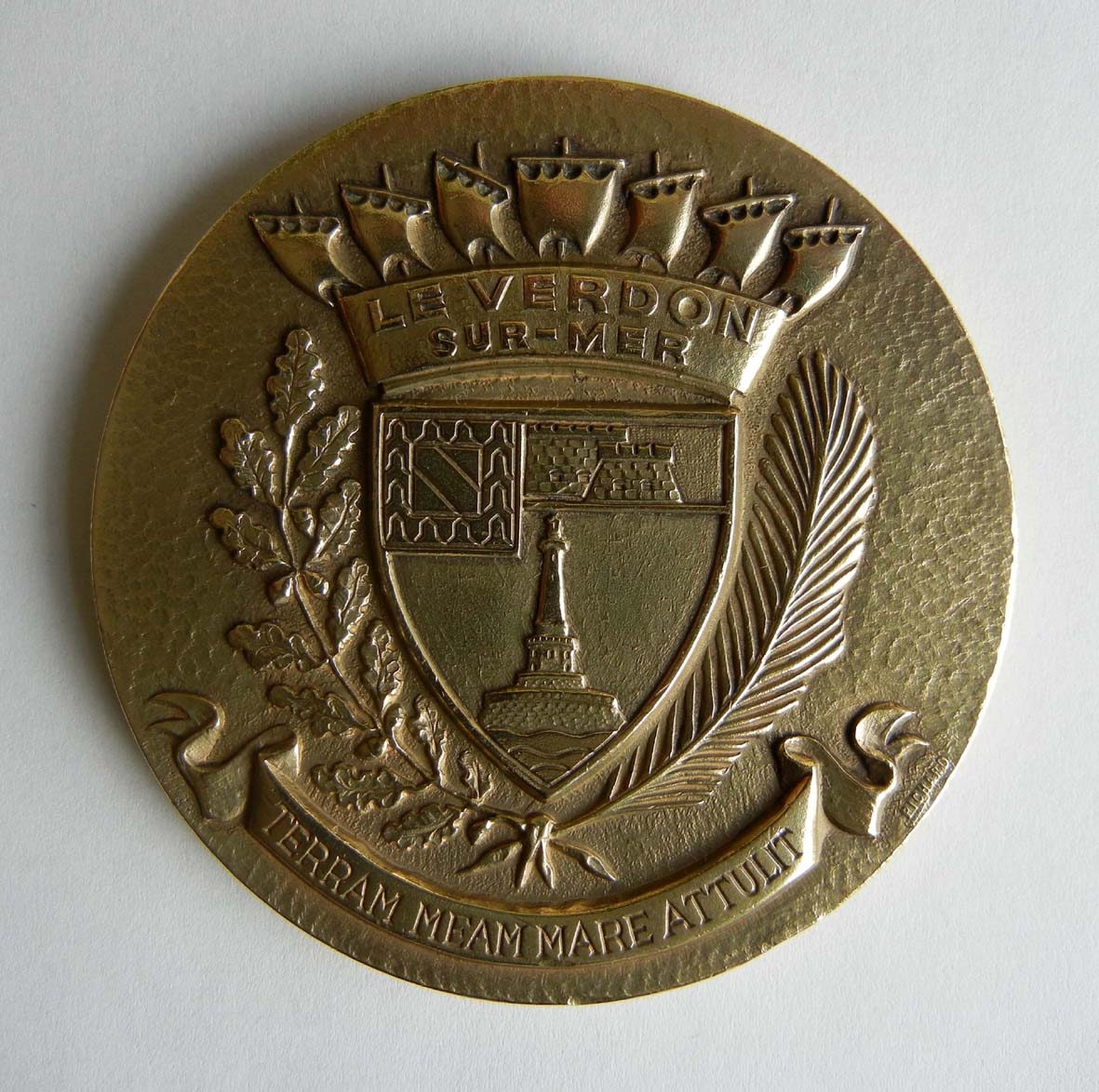 Le Verdon-sur-Mer (Gironde, France) motto "TERRAM MEAM ATTULIT MARE". Engraver: PICHARD, bronze, diameter 65 mm, weight 149 grams.